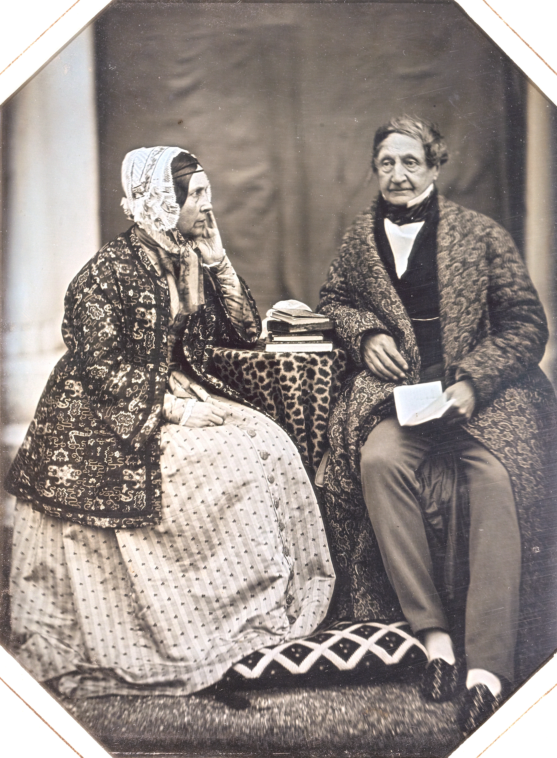 Jean-Gabriel and Anne-Charlotte-Adélaide Eynard Jean-Gabriel Eynard Daguerreotype Image [1/2 plate]: 6 1/32 x 4 7/16 in. 84.XT.255.18